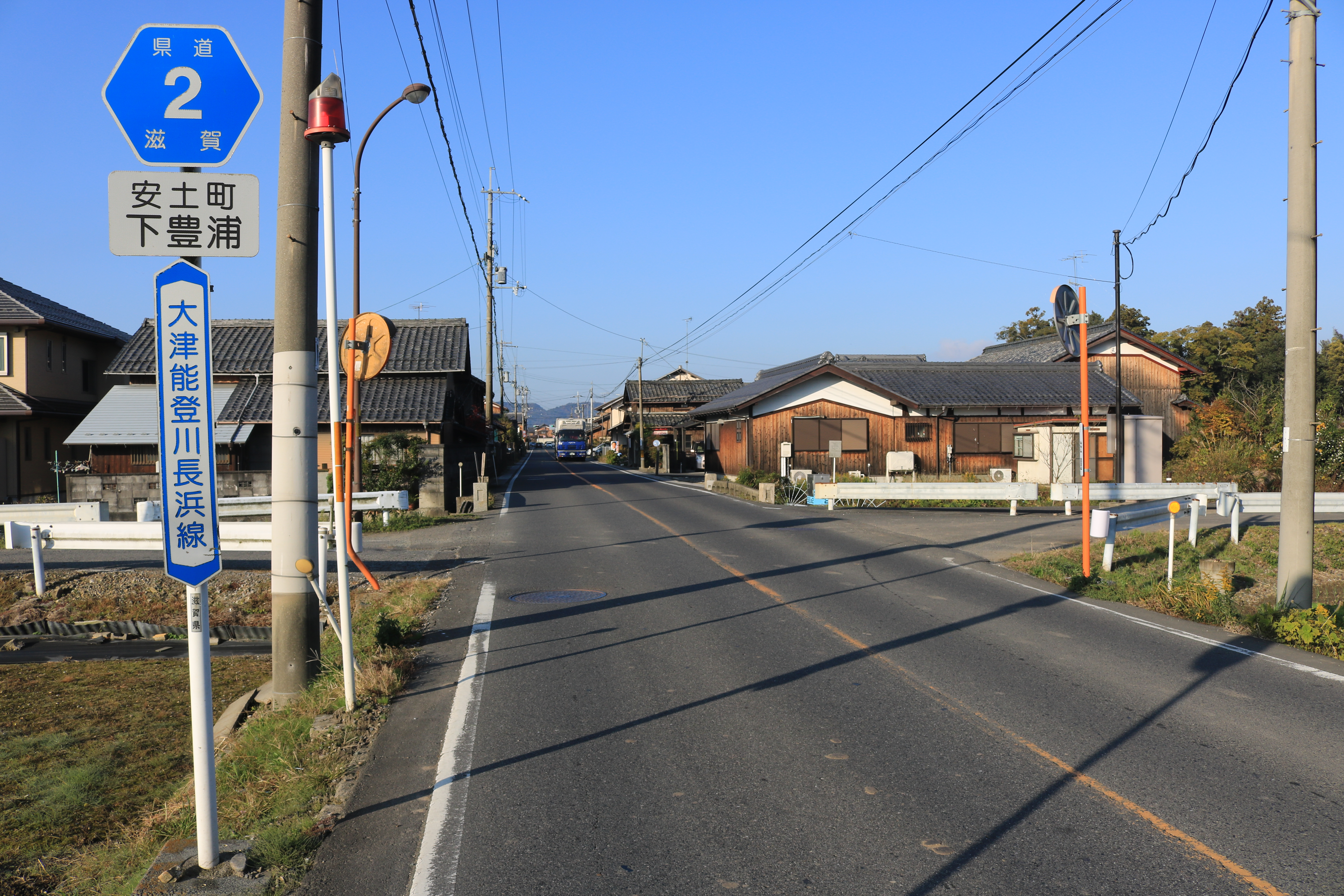 Shiga Prefectural Road Route 2 in Shimotoira, Azuchicho, Omihachiman, Shiga prefecture, Japan.